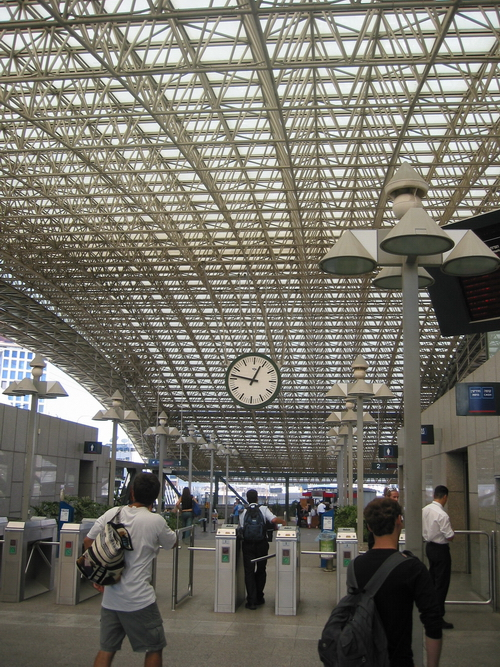 Tel Aviv HaShalom Railway Station, Interior